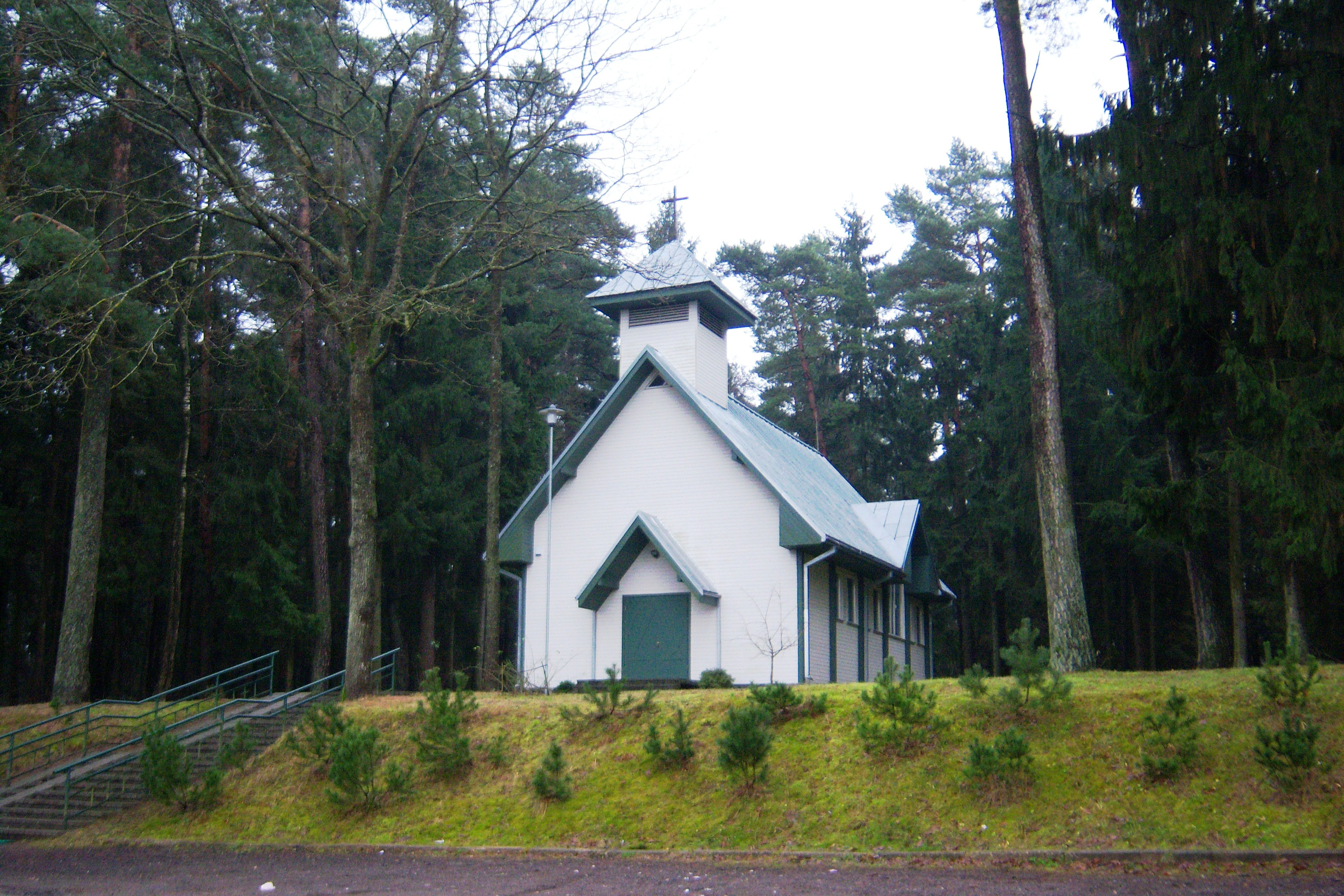 Karčiupis Chapel, Kaišiadorys District, Lithuania